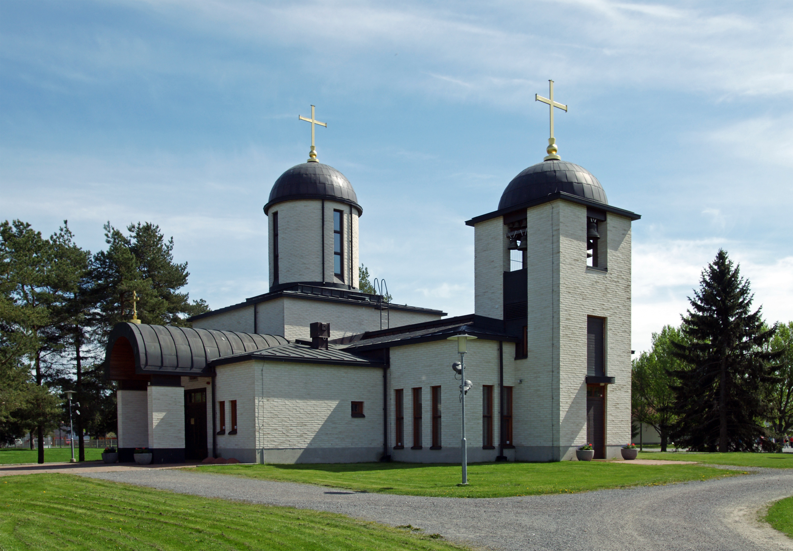 Apostle John the Theologian Church, Pori, Finland.